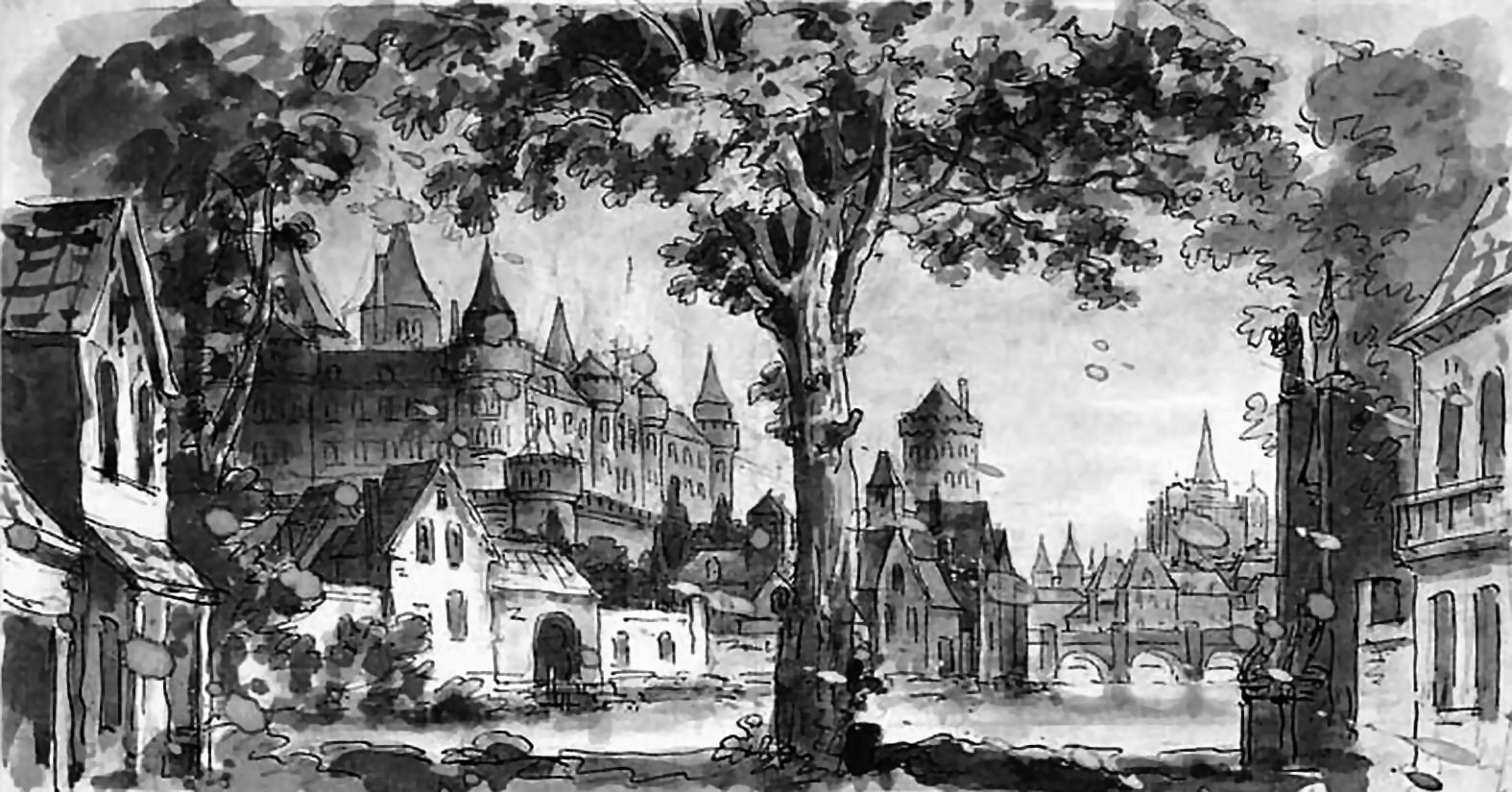 Les Huguenots: sketch of the opera set by Giuseppe Bertoja for the third act (La Fenice, Venice, Italy, 1856)